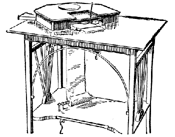 Drawing of an early telautograph. It looks like a small table with an electronic pen attached, over a roll of paper that folds below the table.